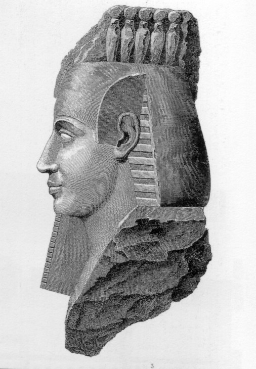 "Description de l´Egypte" (Description of Egypt). Illustration (head of a statue, Theben)